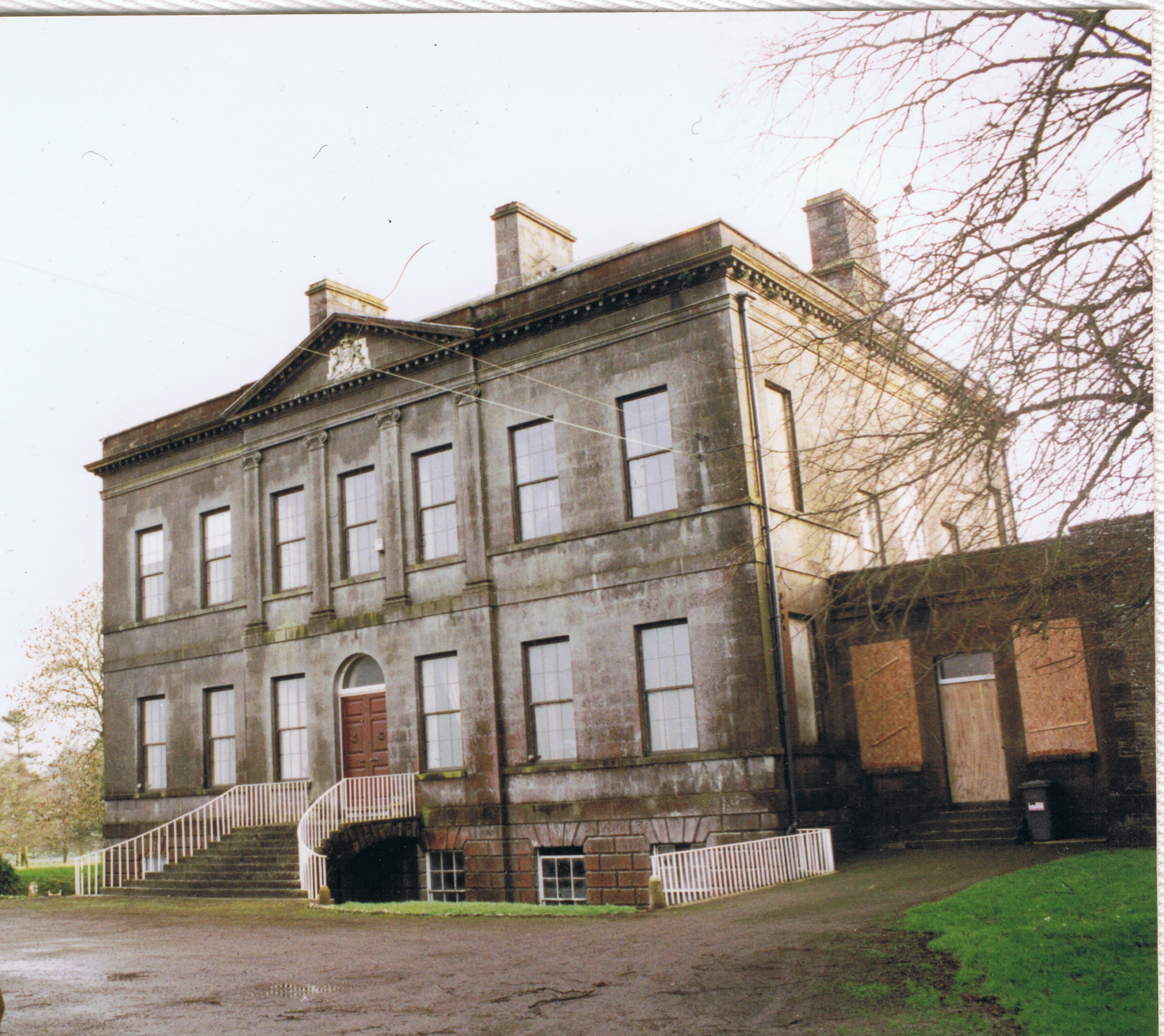 Scan of a photo (photo and scan by me, R. de Salis, Rodolph (talk) 00:20, 15 February 2015 (UTC)) of Rokeby Hall, near Dunleer, County Louth, Ireland.